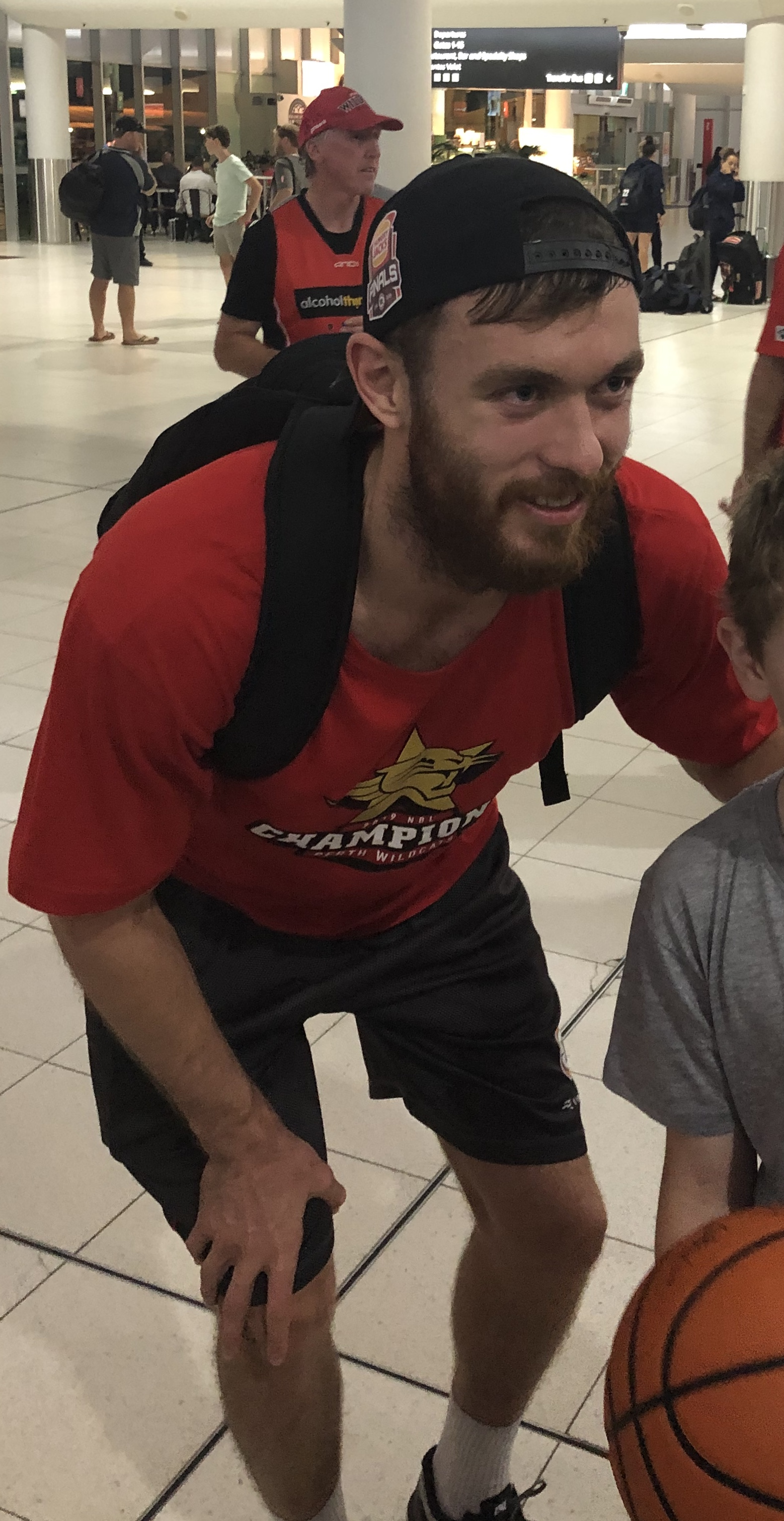 Nick Kay of the Perth Wildcats